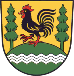 Coat of Arms of Gräfenhain First upload: Martin8689 (10:53, 25. Jun. 2006)